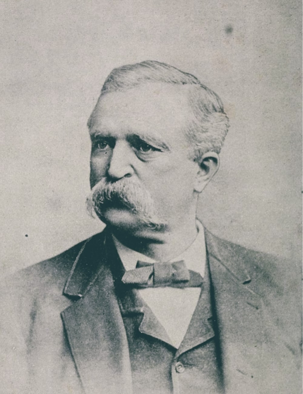 Portrait of James B. Weaver, 1892